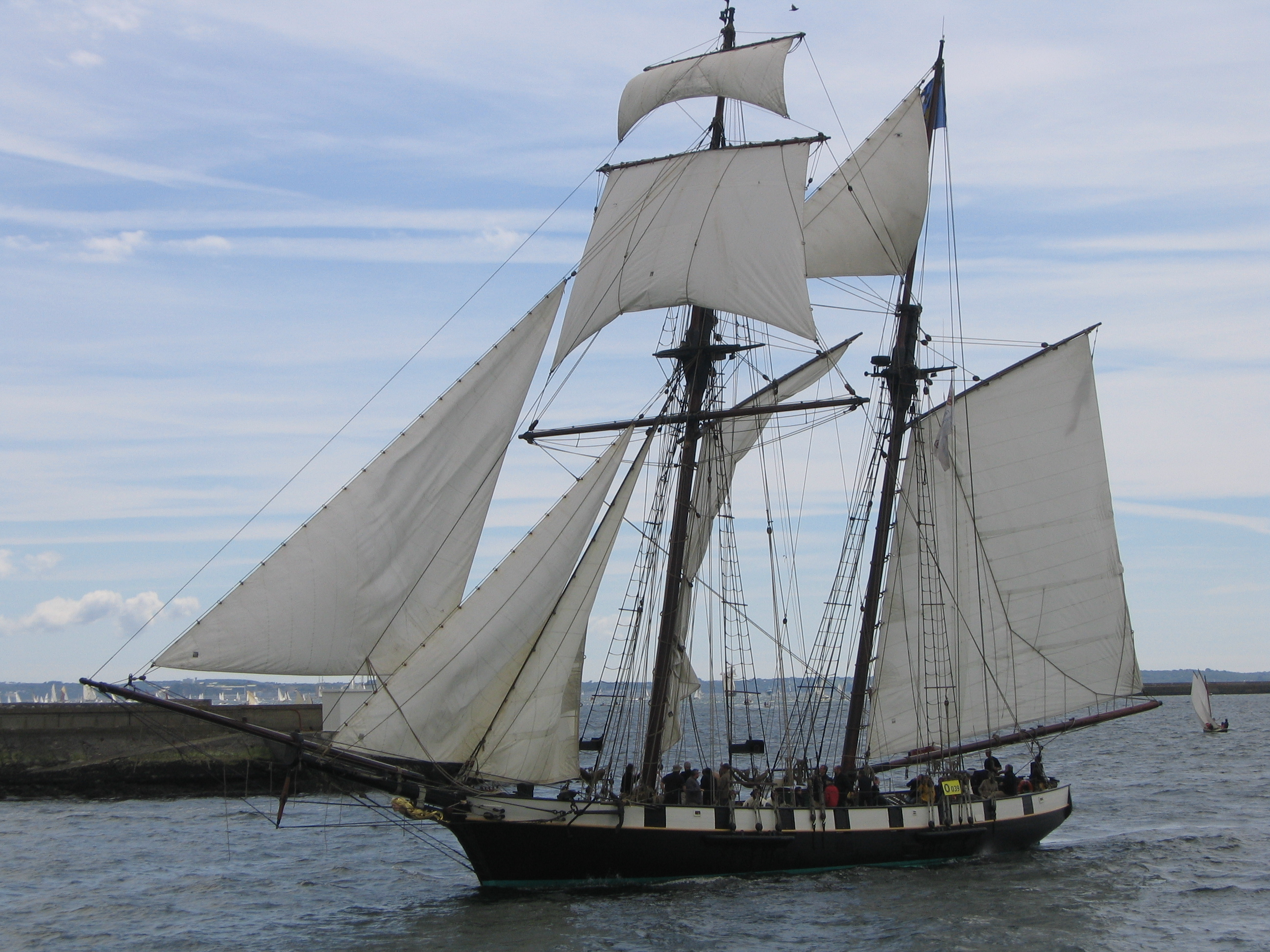 La Recouvrance during the "Brest 2008".